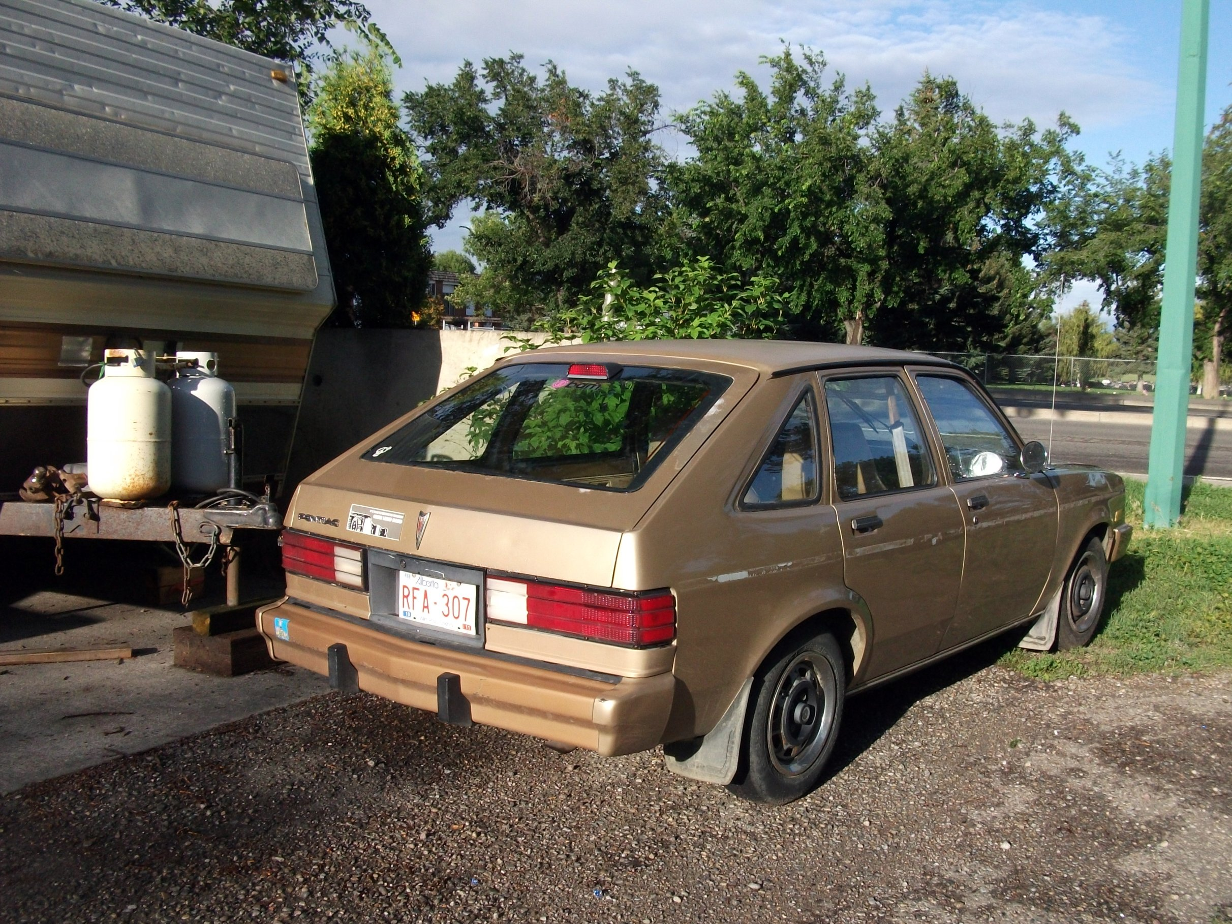 Pontiac Acadian - Canadian variant on the Chevette.